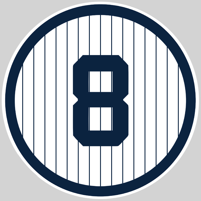 Image represents the current version of Yogi Berra's No. 8 seen in Monument Park in Yankee Stadium